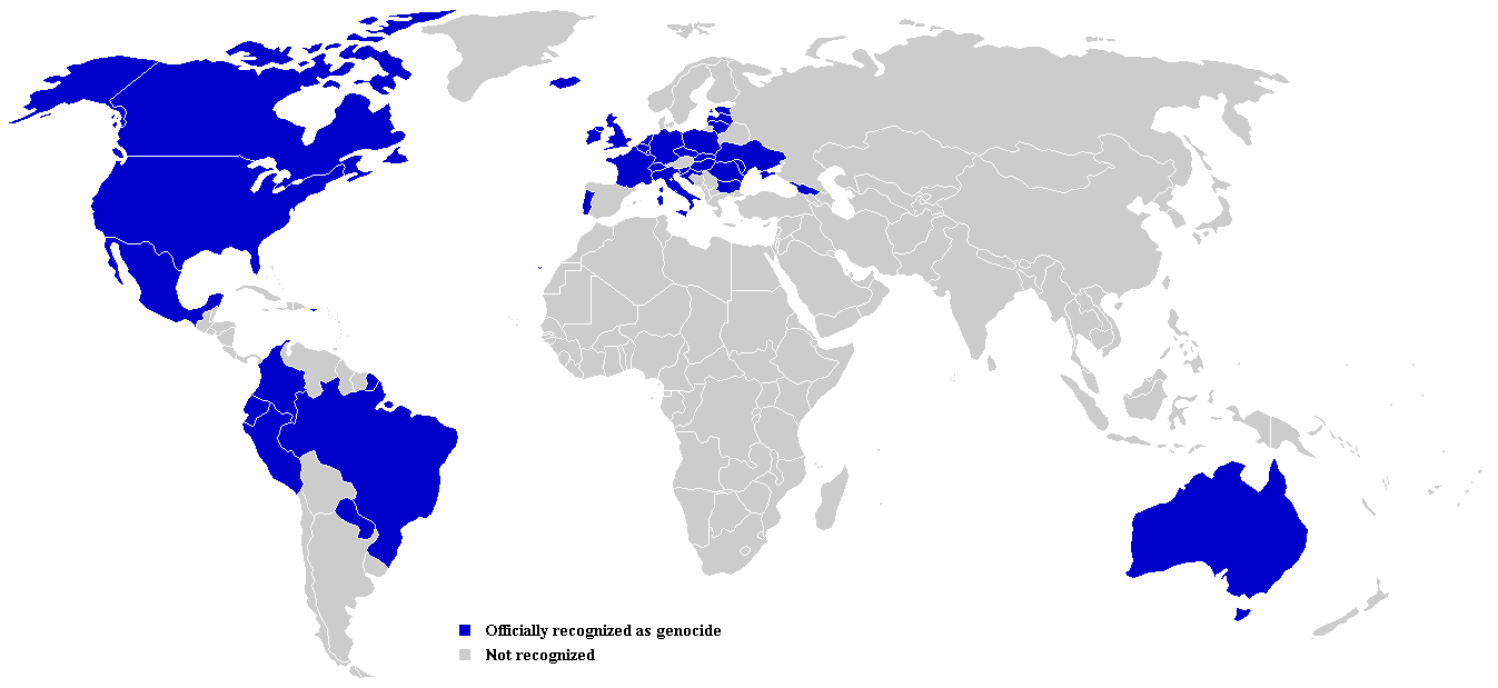 Countries which officially recognise the Holodomor as an act of genocide